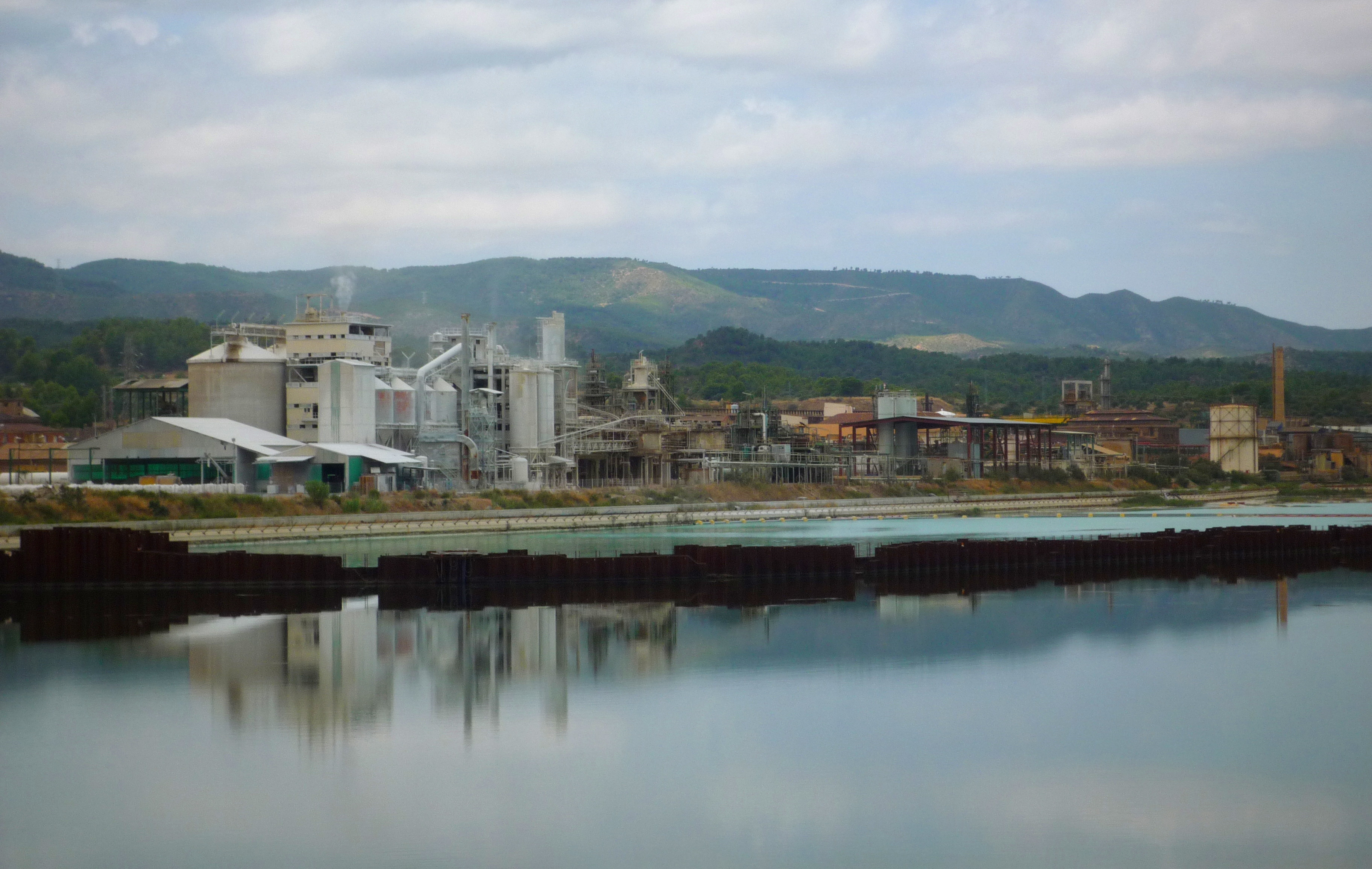 Flix dam, 2014. In the background, electrochemical factory and decontamination works.